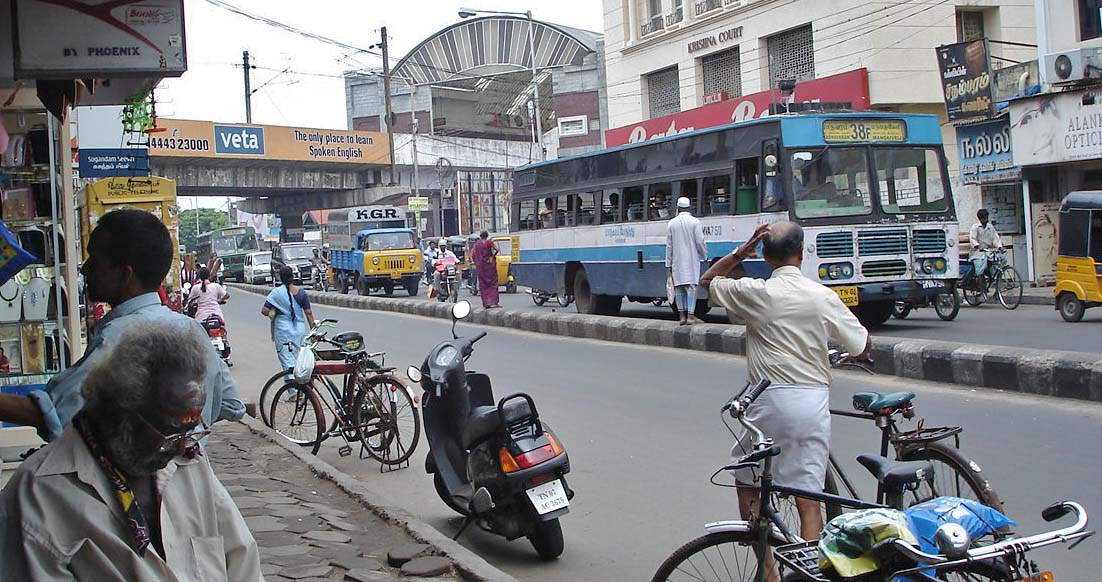 The Mylapore MRTS station as seen from Luz Corner in Chennai, India